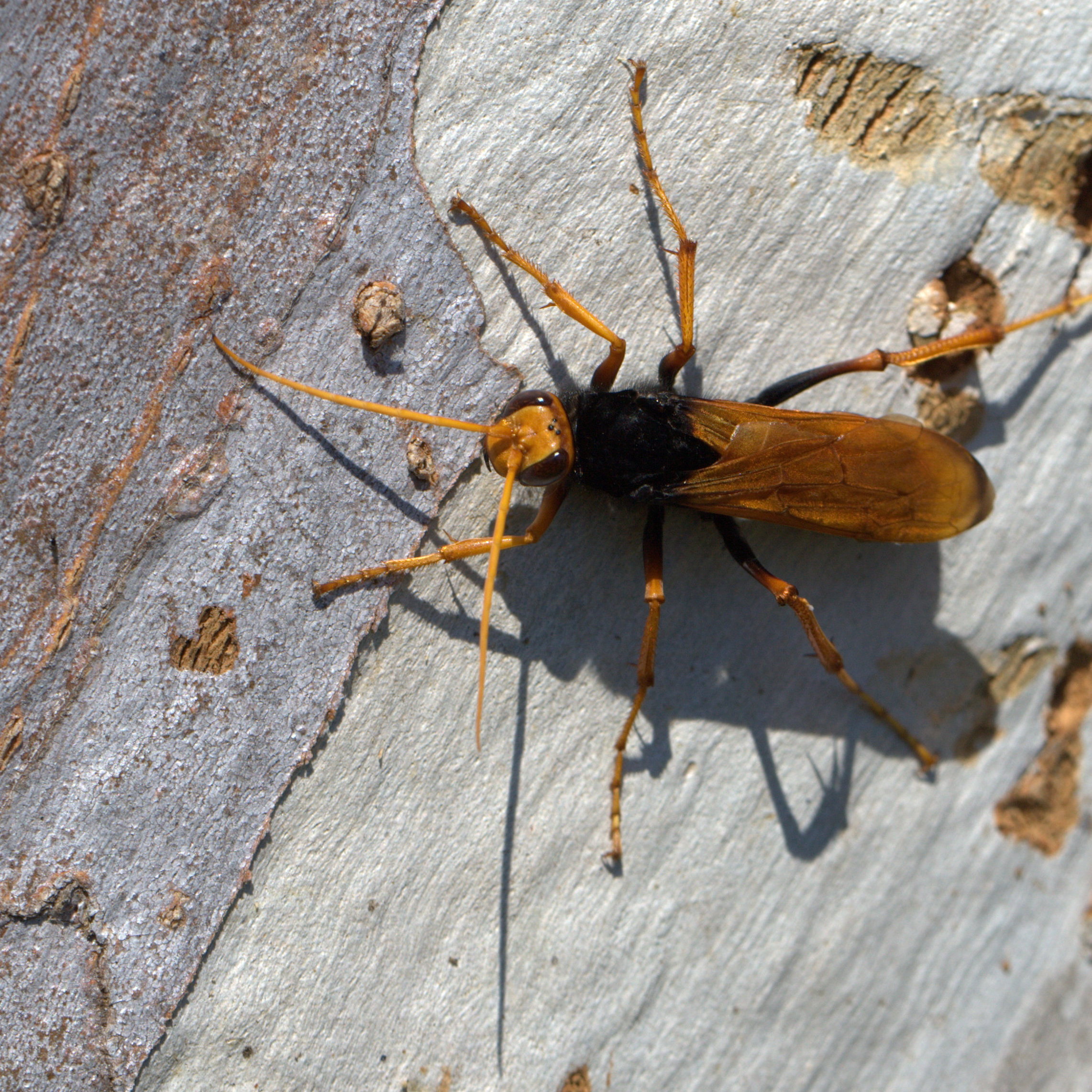 A spider wasp (Cryptocheilus bicolor) at St John's Ashfield in Sydney, NSW, Australia.